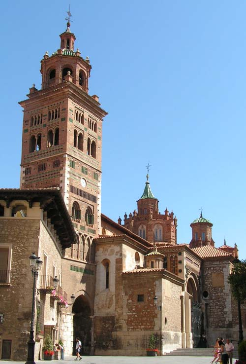 The city of Teruel is known for its numerous old Mudéjar buildings. View of the mudéjar Cathedral of Teruel. Teruel Cathedral.